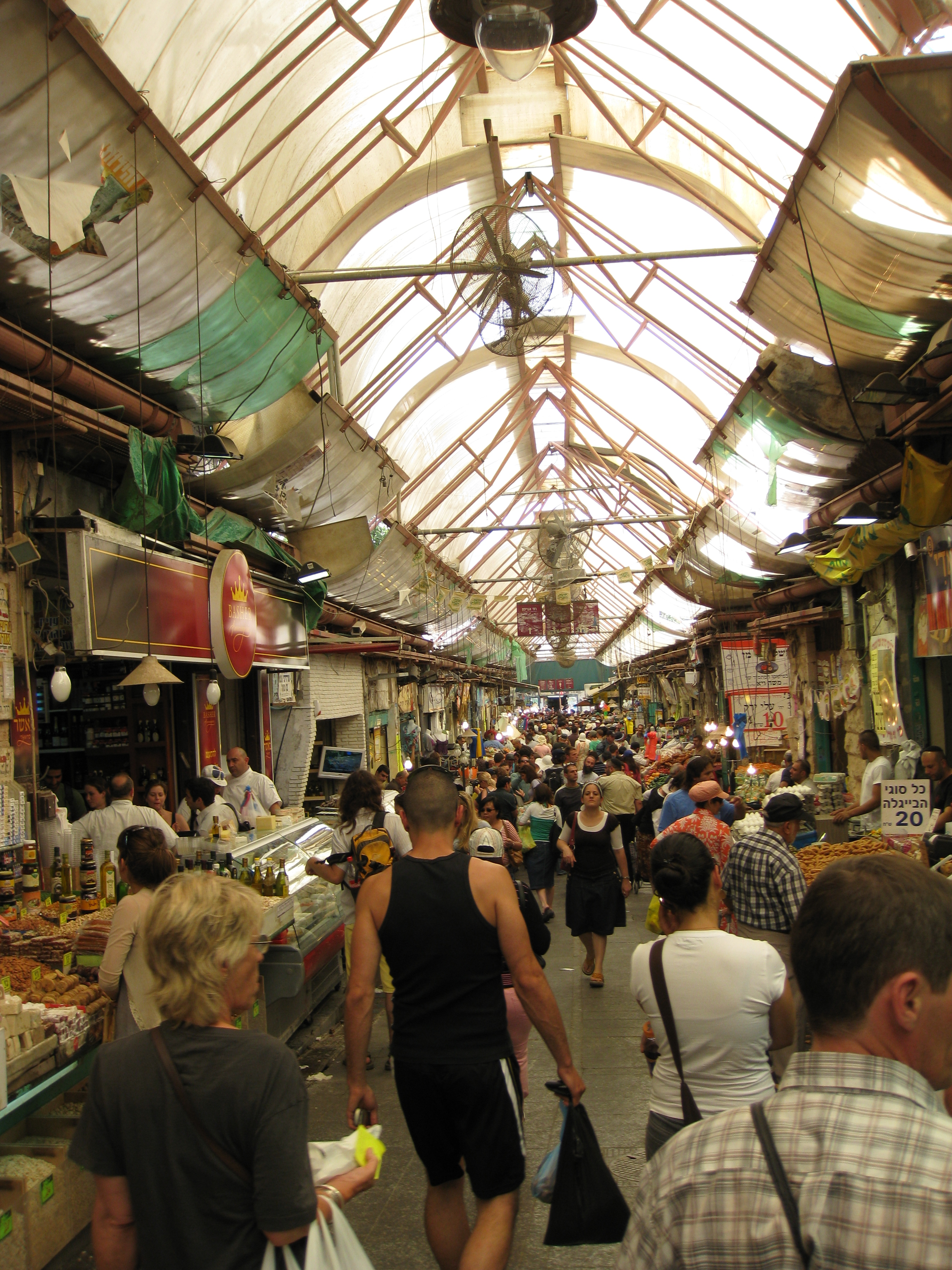 Mahneh Yehuda market